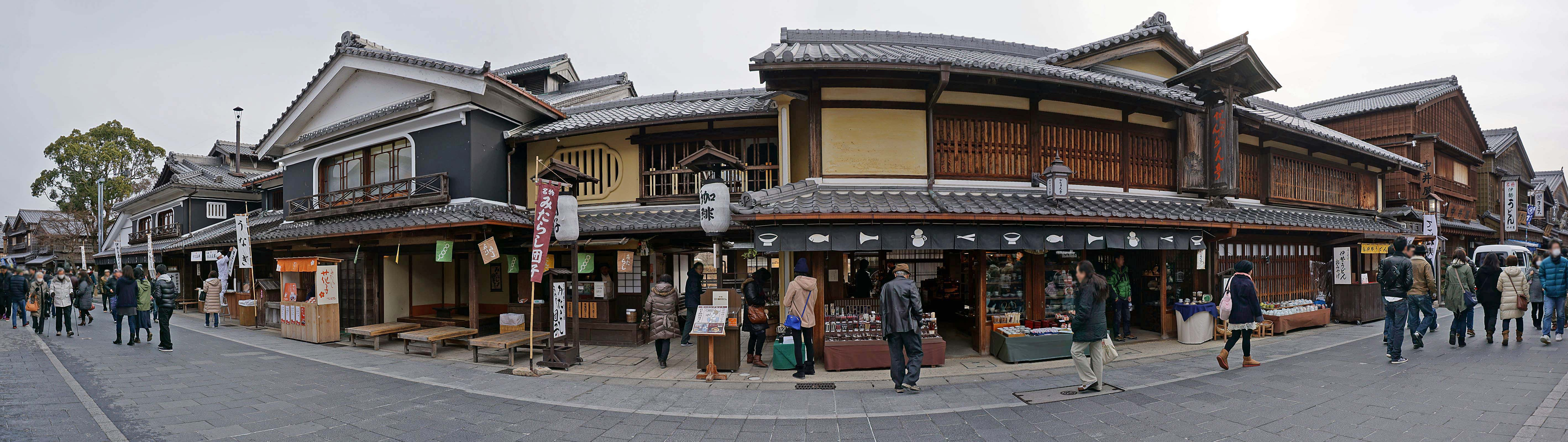 The approch to the Ise grand shrine. , 伊勢神宮 参道